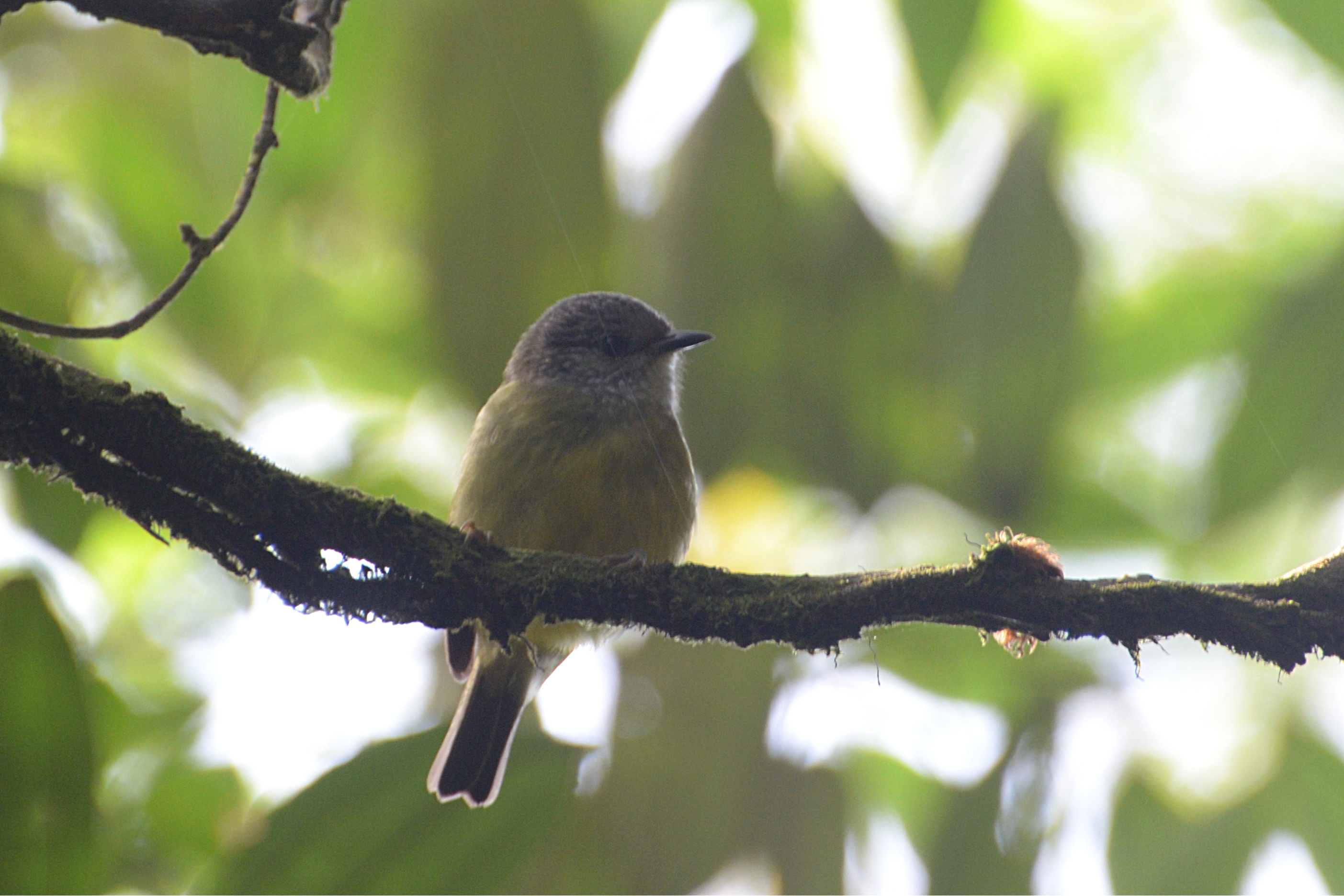 Streak-headed white-eye (Lophozosterops squamiceps stresemanni) at Mount Soputan Protected Forest, North SulawesiBahasa Indonesia: Opior sulawesi (Lophozosterops squamiceps stresemanni) di Hutan Lindung Gunung Soputan, Sulawesi Utara